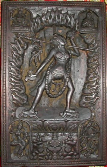 carving; from Dakini